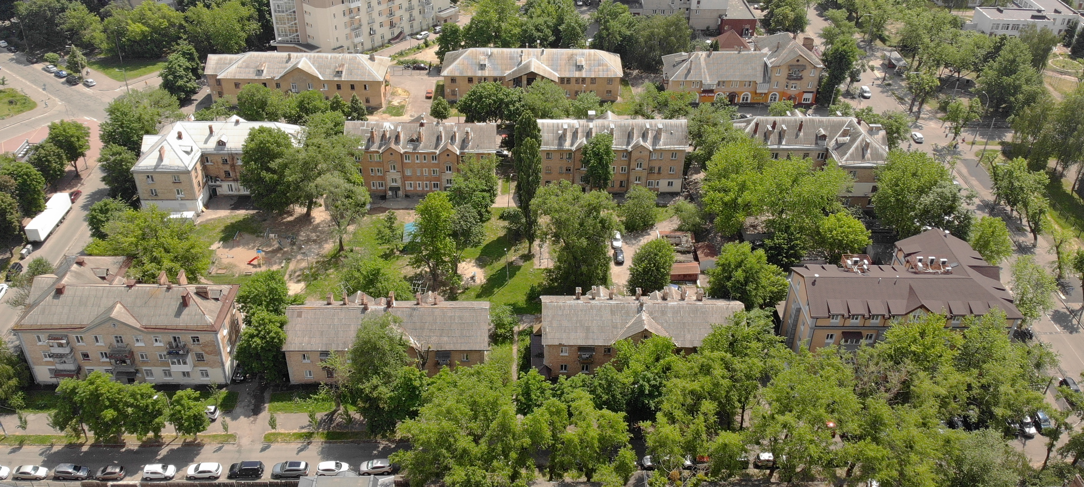 Архітектура сталінського періоду на Чоколівці - селище ГВФ (1950-ті рр.)